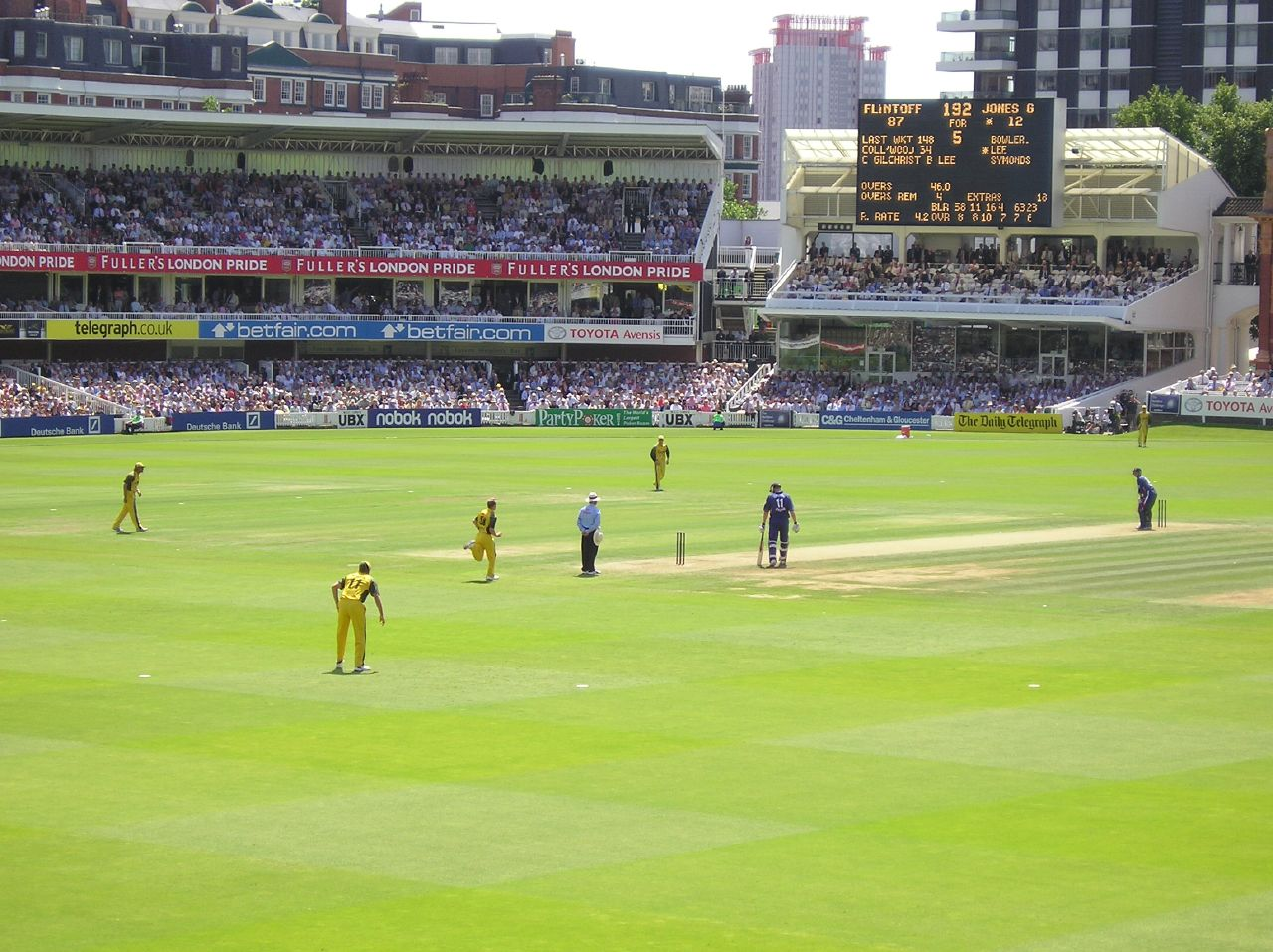 England against Australia in a One-day International at Lord's Cricket Ground, 10th July 2005.